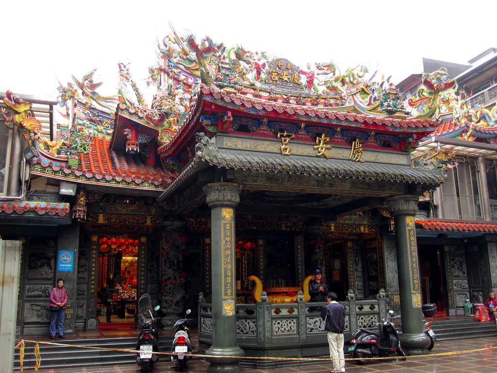 Ching-An Temple is dedicated to the deity Mazu and located on Zhong 2nd Road in Keelung City,Taiwan.